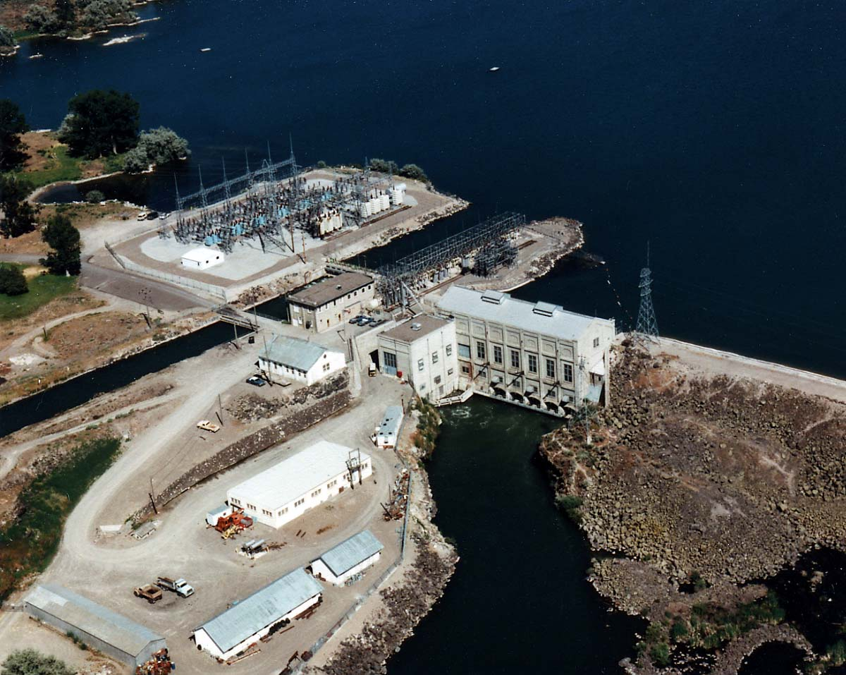 The Minidoka Dam and power plant in 1986.